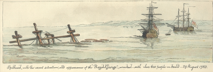 Caption: "Spithead, with the exact situation and appearance of the "Royal George", wrecked - with above 600 people on board - 29 August 1782."